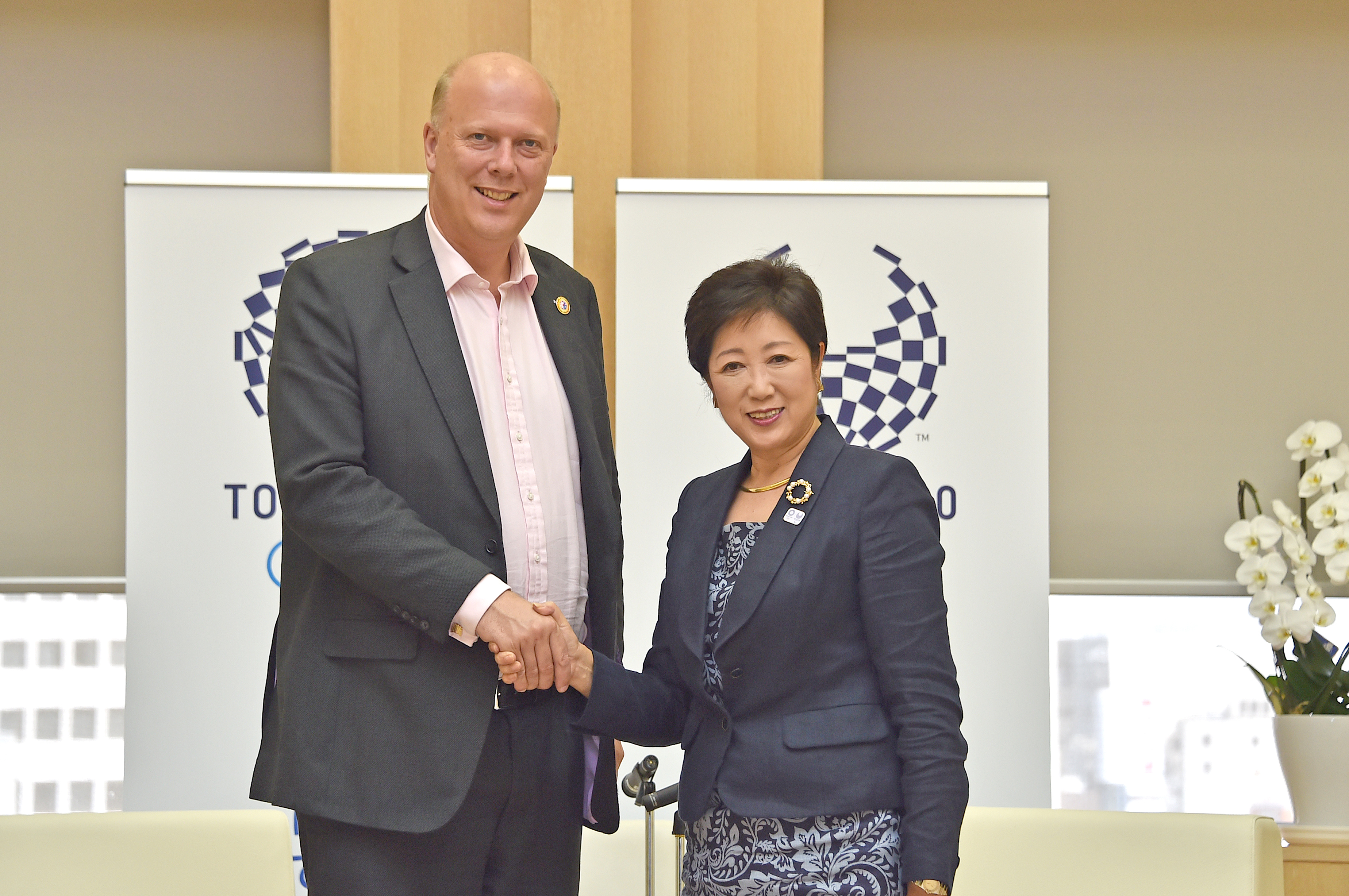 In Japan to attend the G7 Transport Ministers’ Summit in Karuizawa, Nagano from September 23-25, Rt Hon Chris Grayling MP, Secretary of State for Transport took time in Tokyo to call on Tokyo Governor Koike and meet with representatives from some of the many Japanese companies investing and doing business in the UK. (c)Tokyo Metropolitan Government